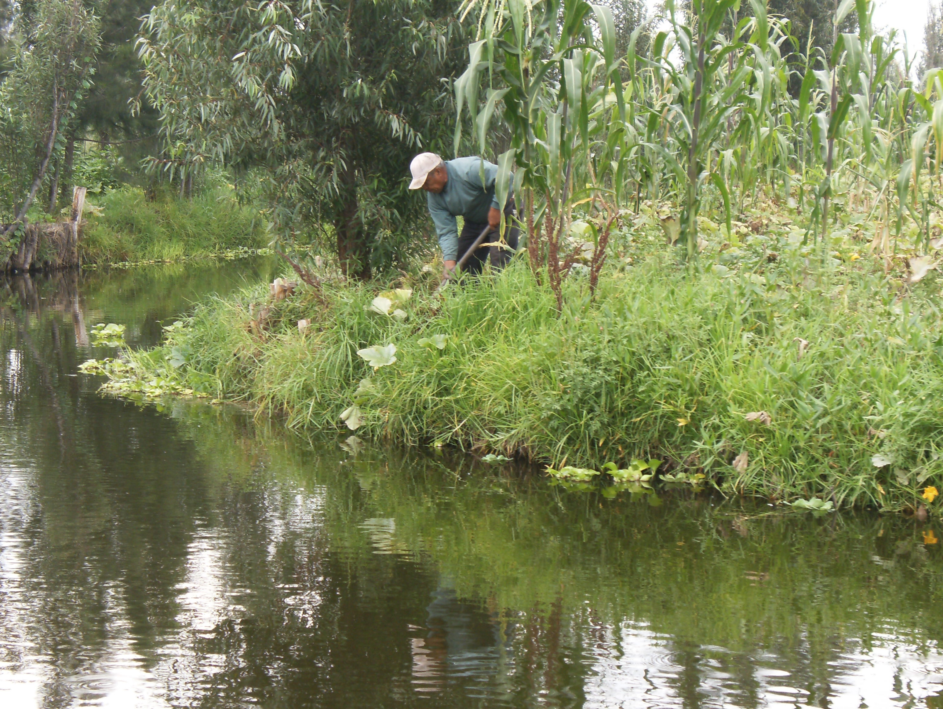 One of the remaining Chinampas (farm island) — in Xochimilco.